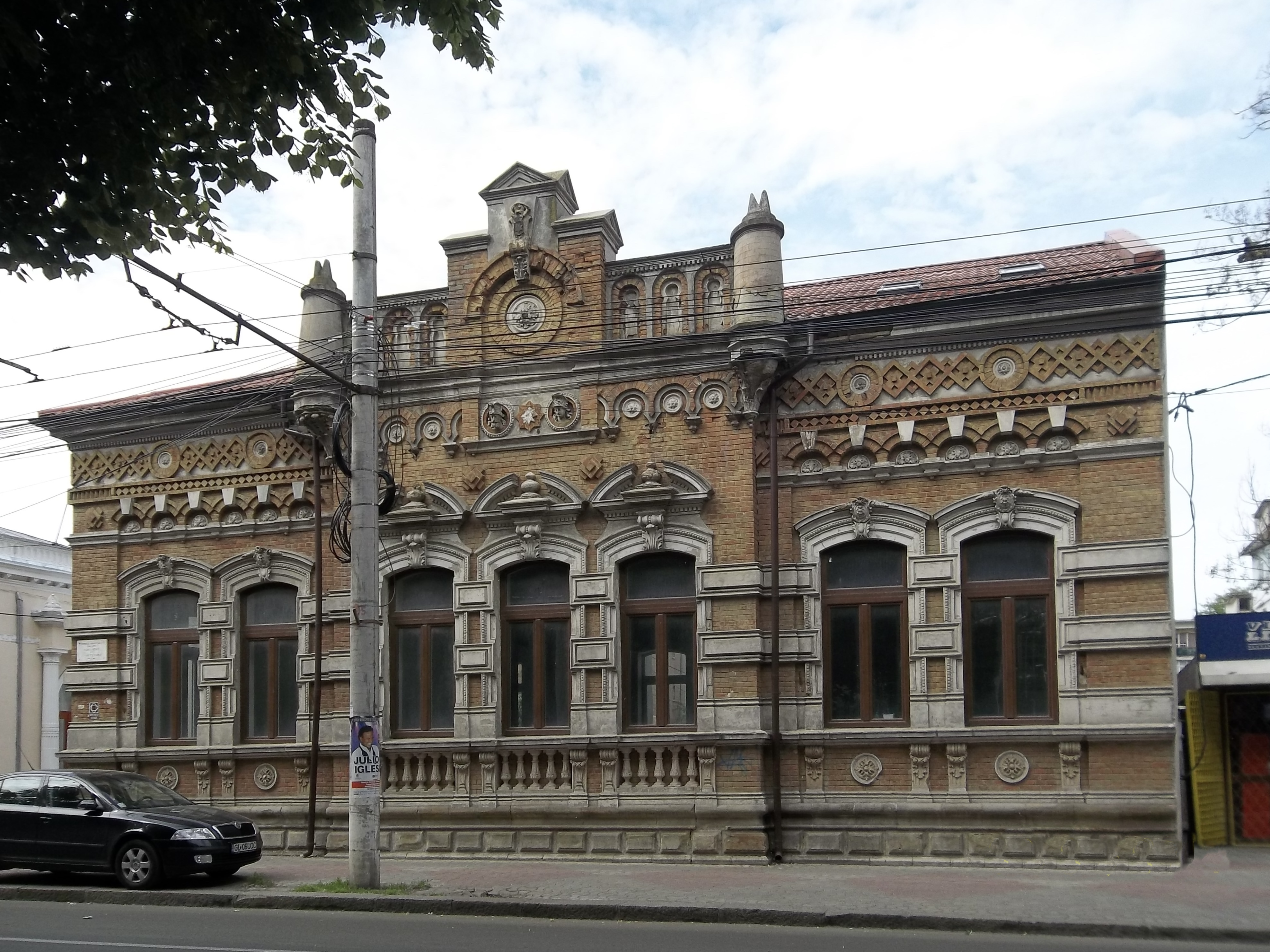 Old Building located on Domneasca Street, Galati, Galatz, Romania